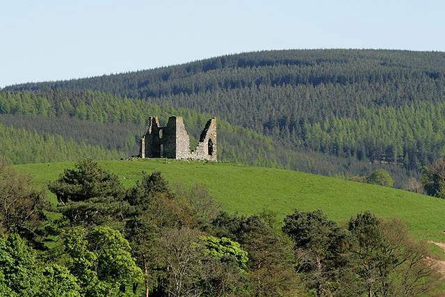 Horsburgh Castle This shell of a small 16th century tower house is a prominent landmark on the south side of the A72 near Peebles.